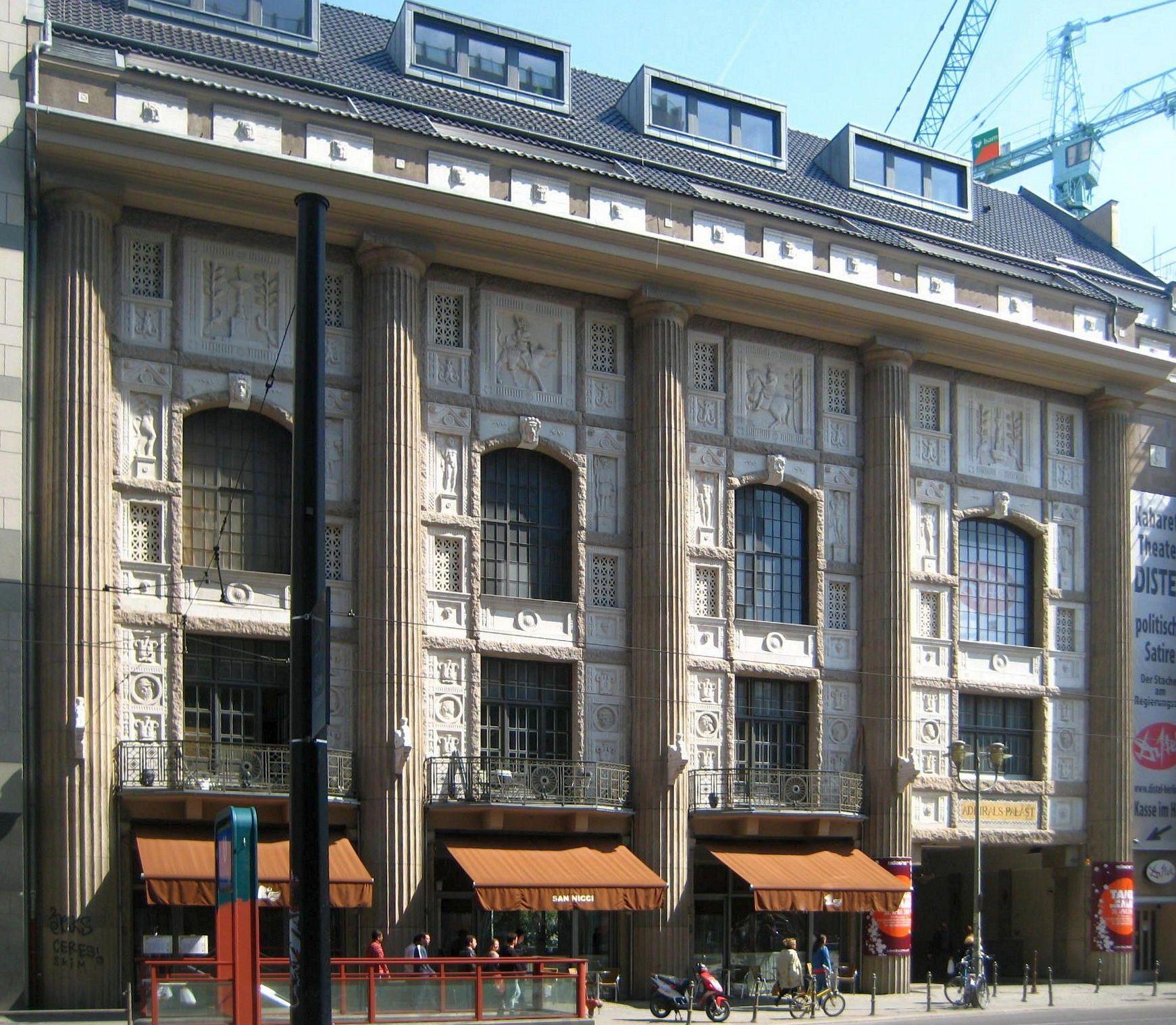 The Admiralspalast at Friedrichstraße No. 101-102 in Berlin-Mitte. It was built from 1910 to 1911 to a design by Heinrich Schweitzer as an entertainment venue and has been altered several times since. It has been designated as a historic landmark.